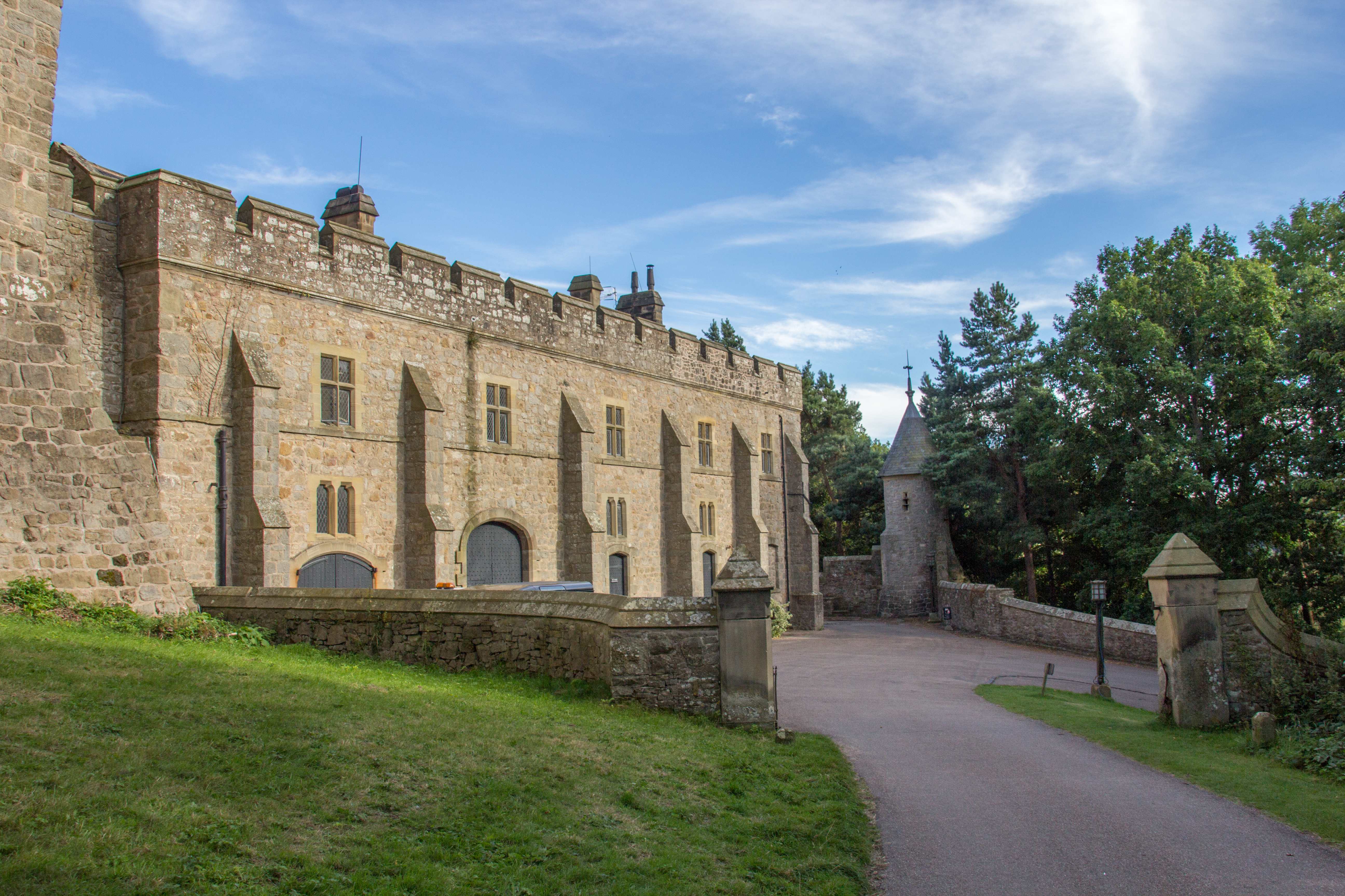 Chirk Castle, Wales, United Kingdom